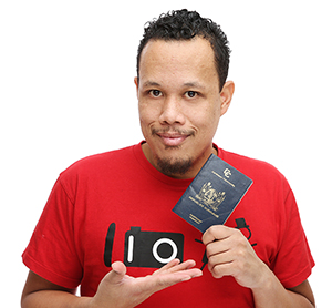 Portret photo of Raúl Neijhorst